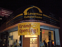 The LCC.